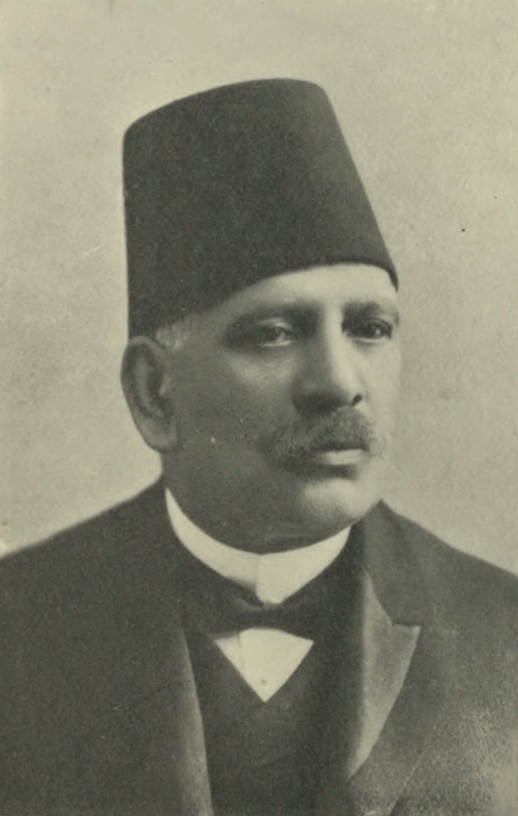 H.E. Boutros Pasha, Minister of Foreign Affairs